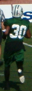 Drew Coleman during practice